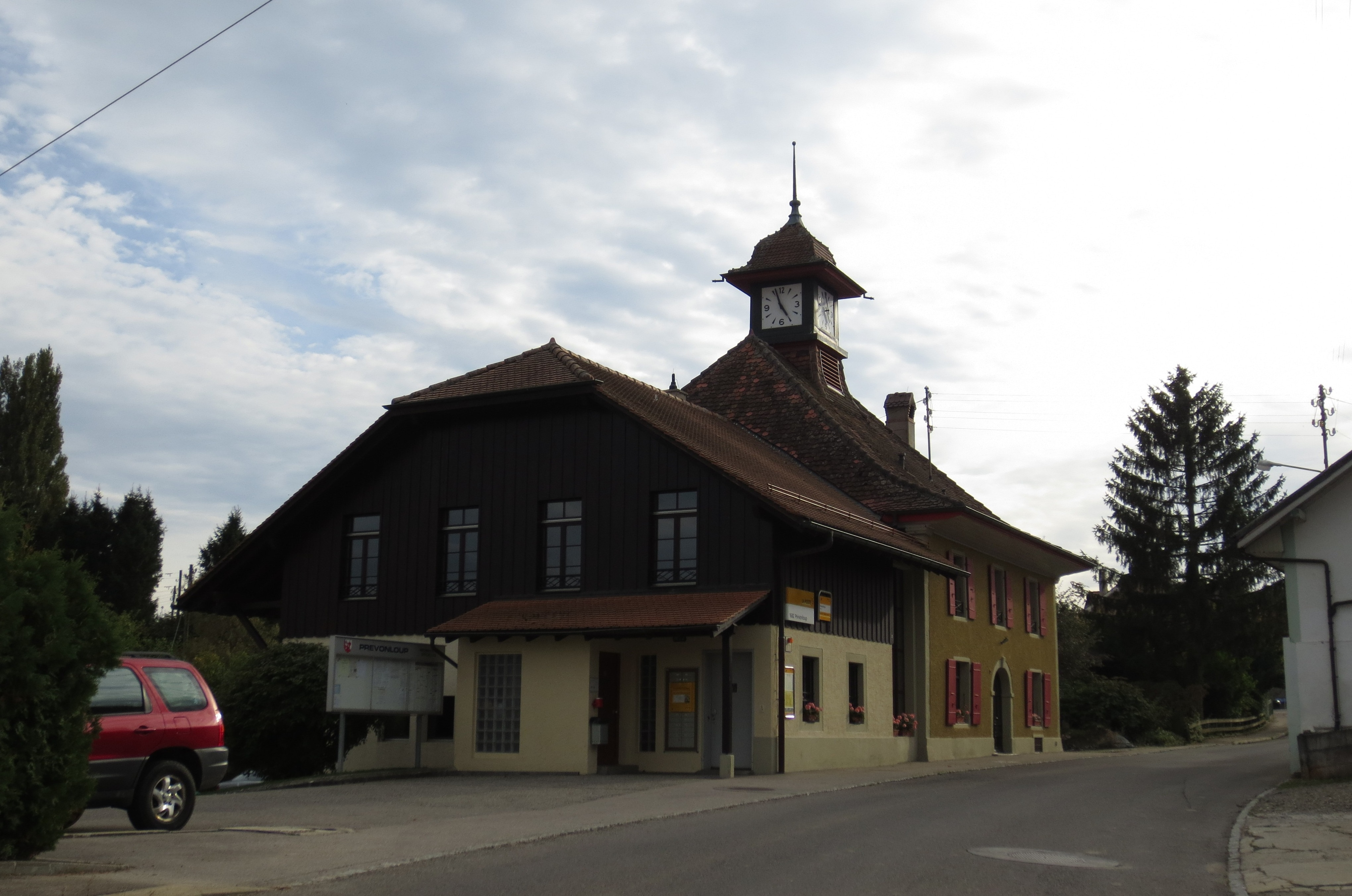 Prévonloup, Canton of Vaud, Switzerland